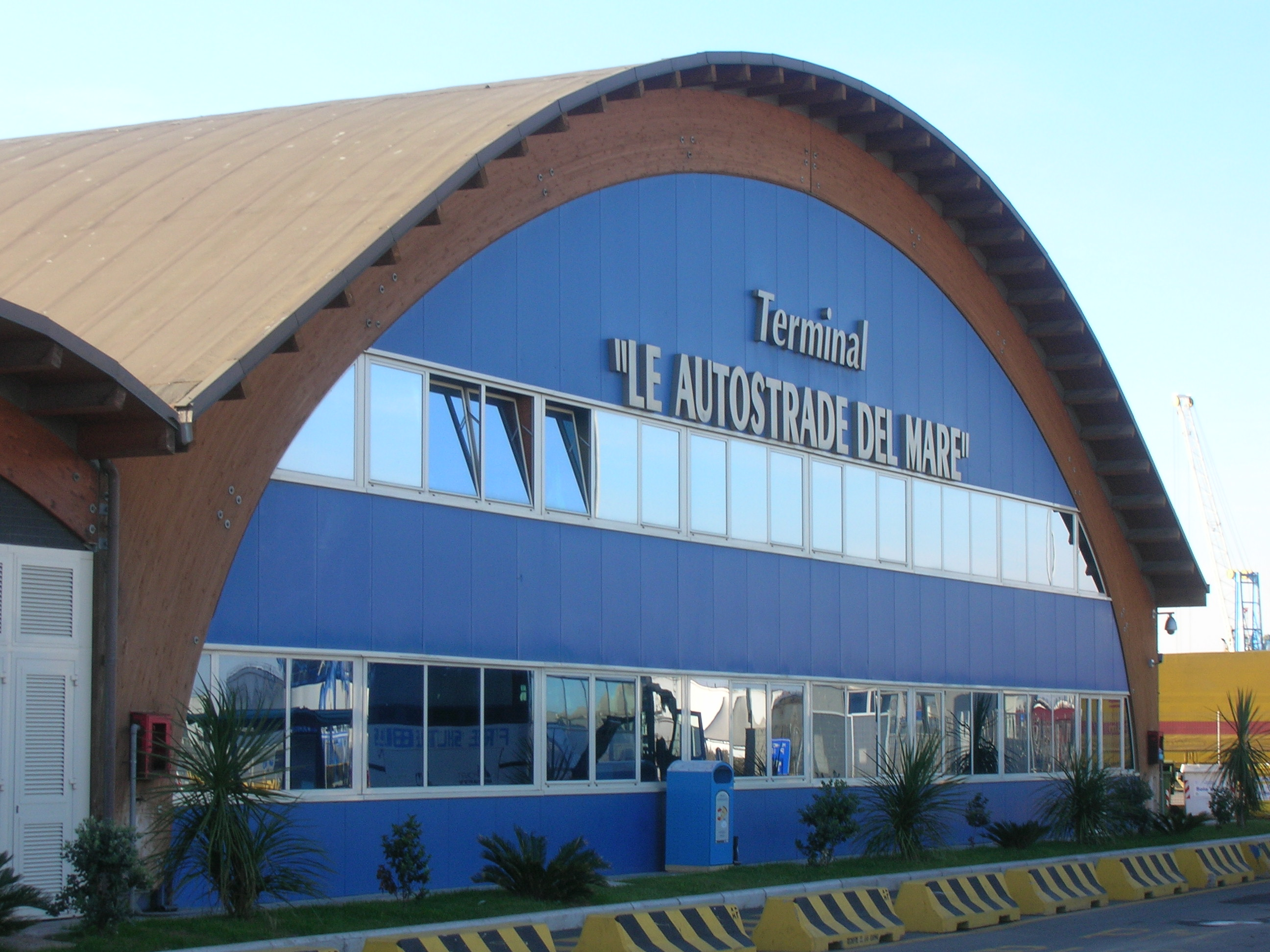 MOS Terminal in Civitavechia